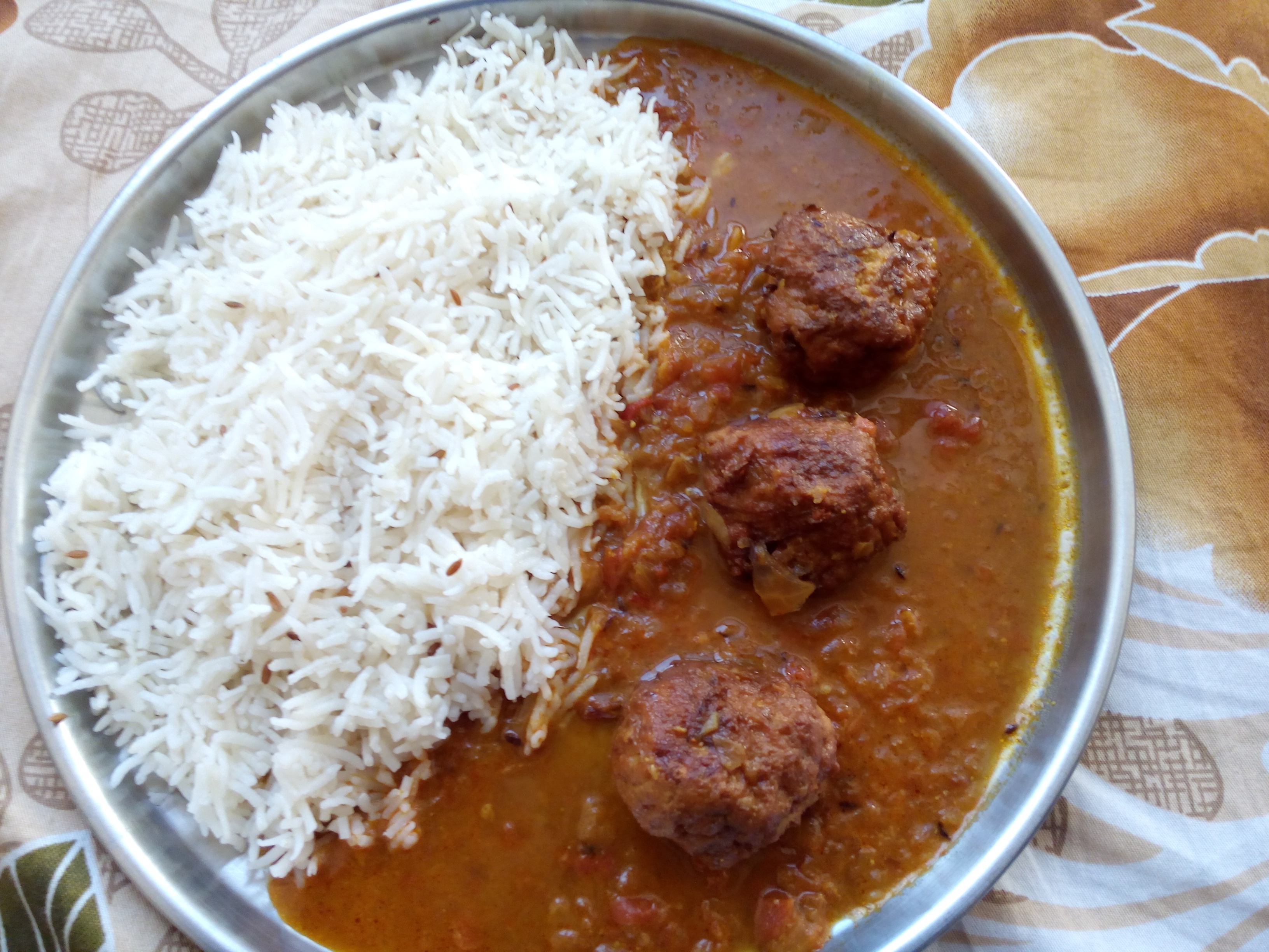 Vegetarian Koftas with boiled rice from India.